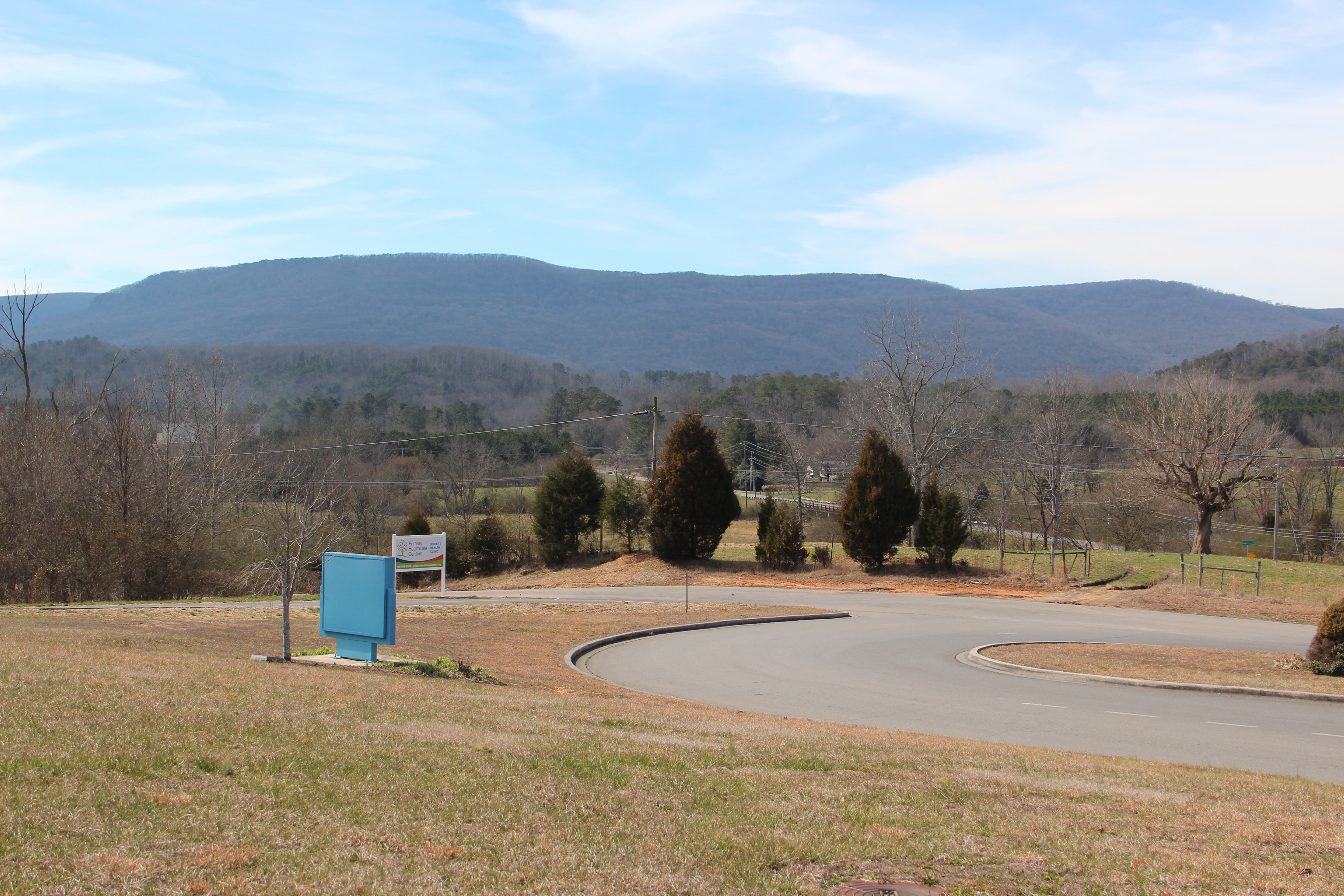 Viewed from Gilbert Elementary School